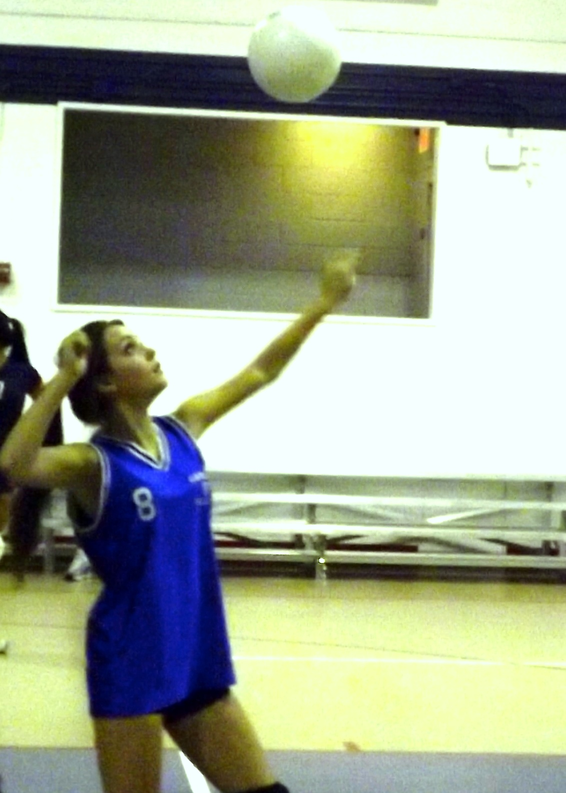 Garden School competes in several sports against other similar schools as part of our athletics program.